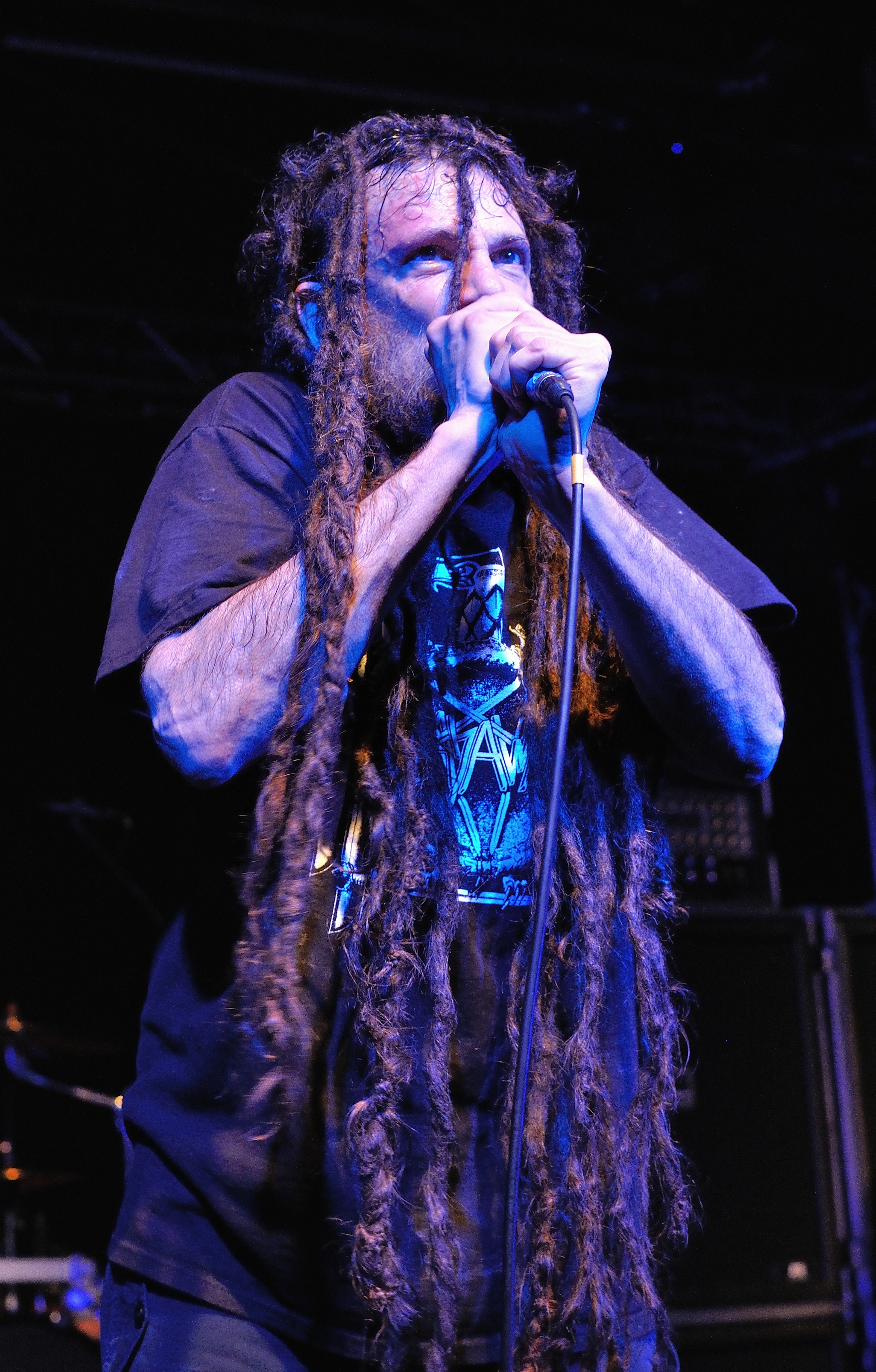 Six Feet Under at Hatefest 2015 in Berlin.